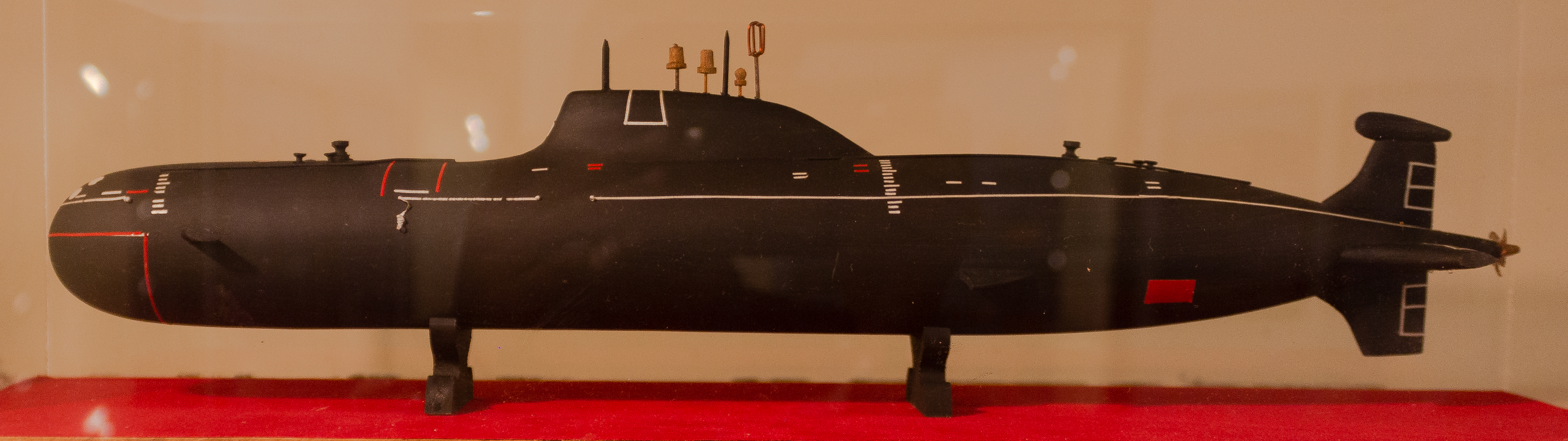 Model of INS Chakra / Russian submarine Nerpa (K-152), on display at Visakha Museum, Andhra Pradesh, India. Object location17° 43′ 14.55″ N, 83° 20′ 01.79″ E